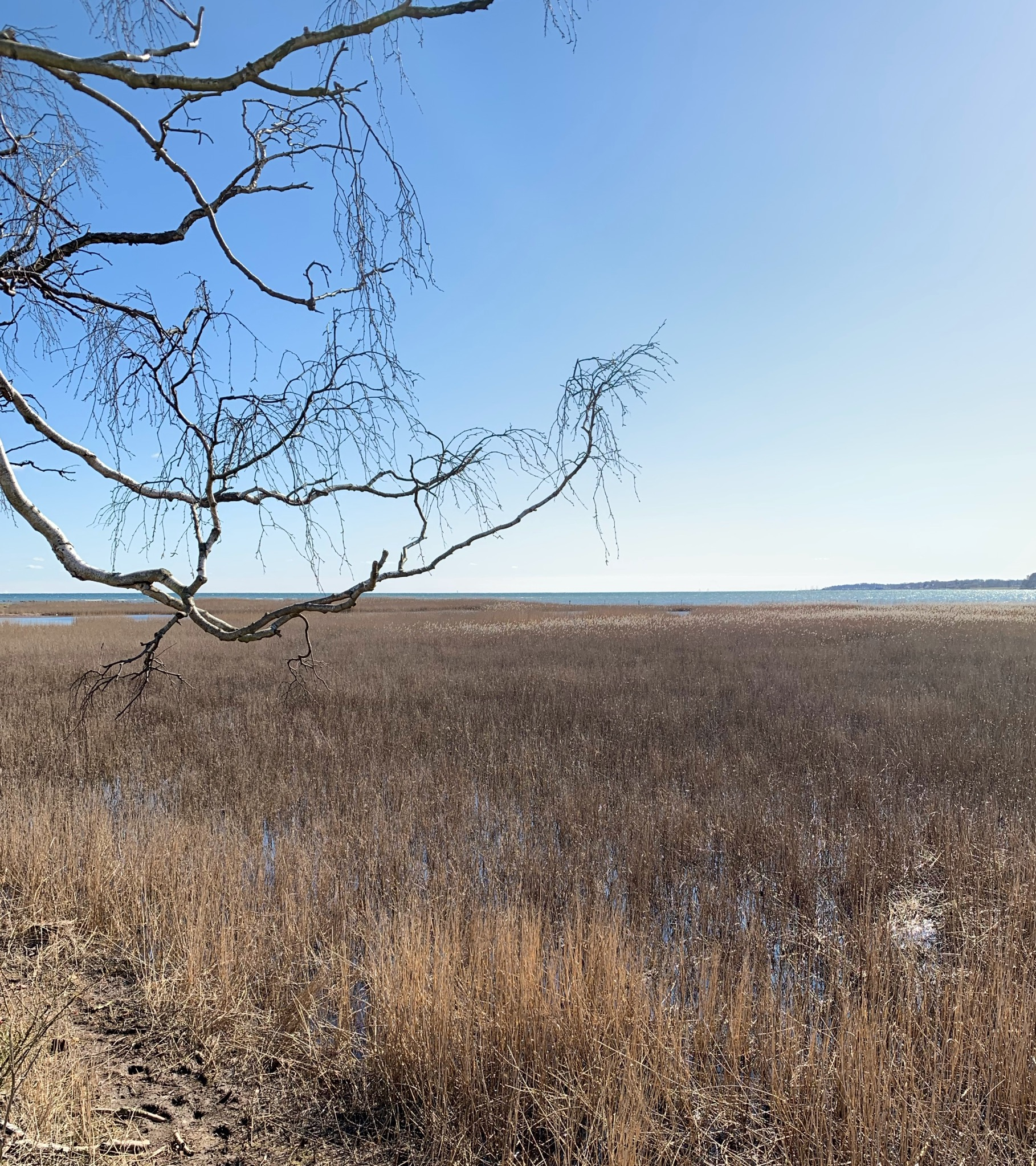 Beach meadows at Nivå